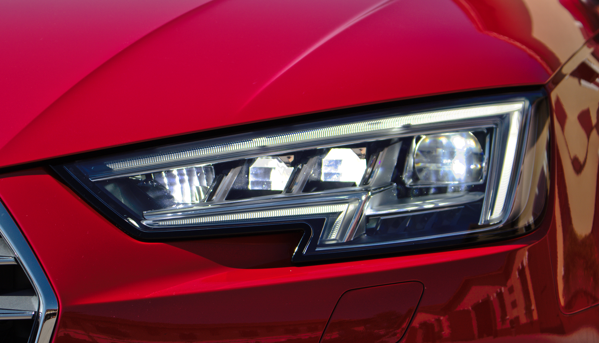 2015 Audi A4 B9 S line Tangorot LED Matrix Headlight